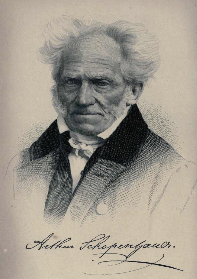 Print of the philosopher Arthur Schopenhauer with his signature appended.